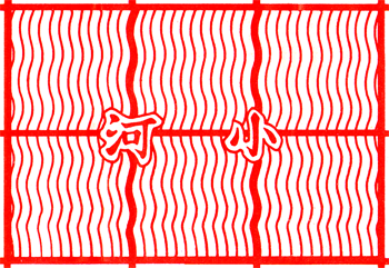 One section of a paper board of the Chinese board game Dou Shou Qi known in English as Jungle. The board is a typical generic version used by several manufacturers of the game. Scanned by: Steven Varner, User:Parsa Date: 2007.01.09